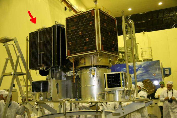 Satellite cluster, including EgyptSat-1 (top left) and SaudiSat-3 (top right) during launch preparations